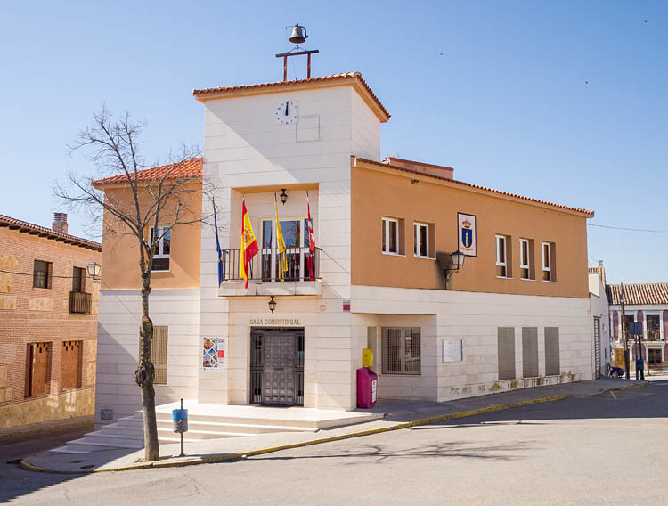 Ayuntamiento de Ribatejada.